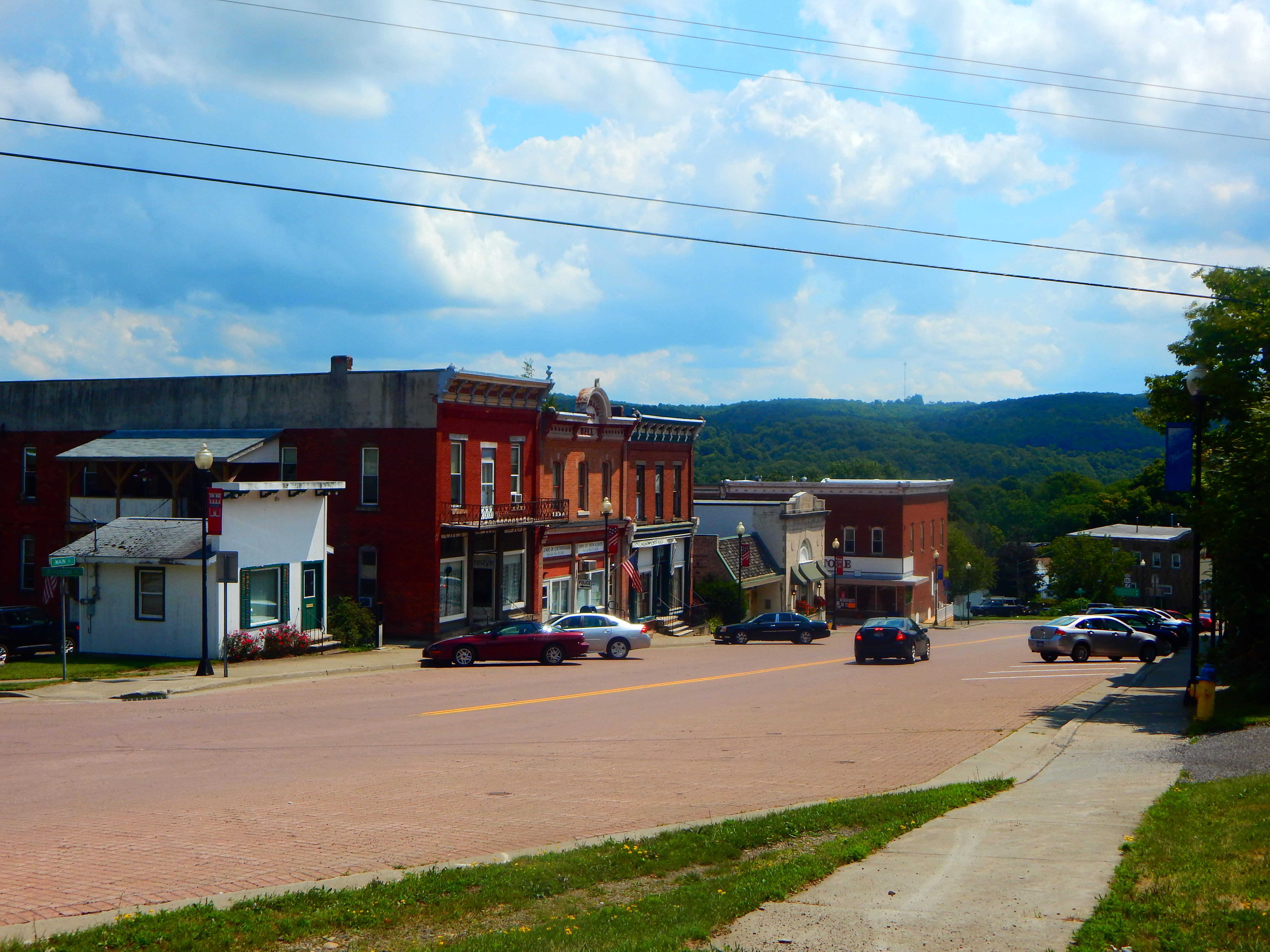 New York State Route 353 through downtown Cattaraugus, New York.